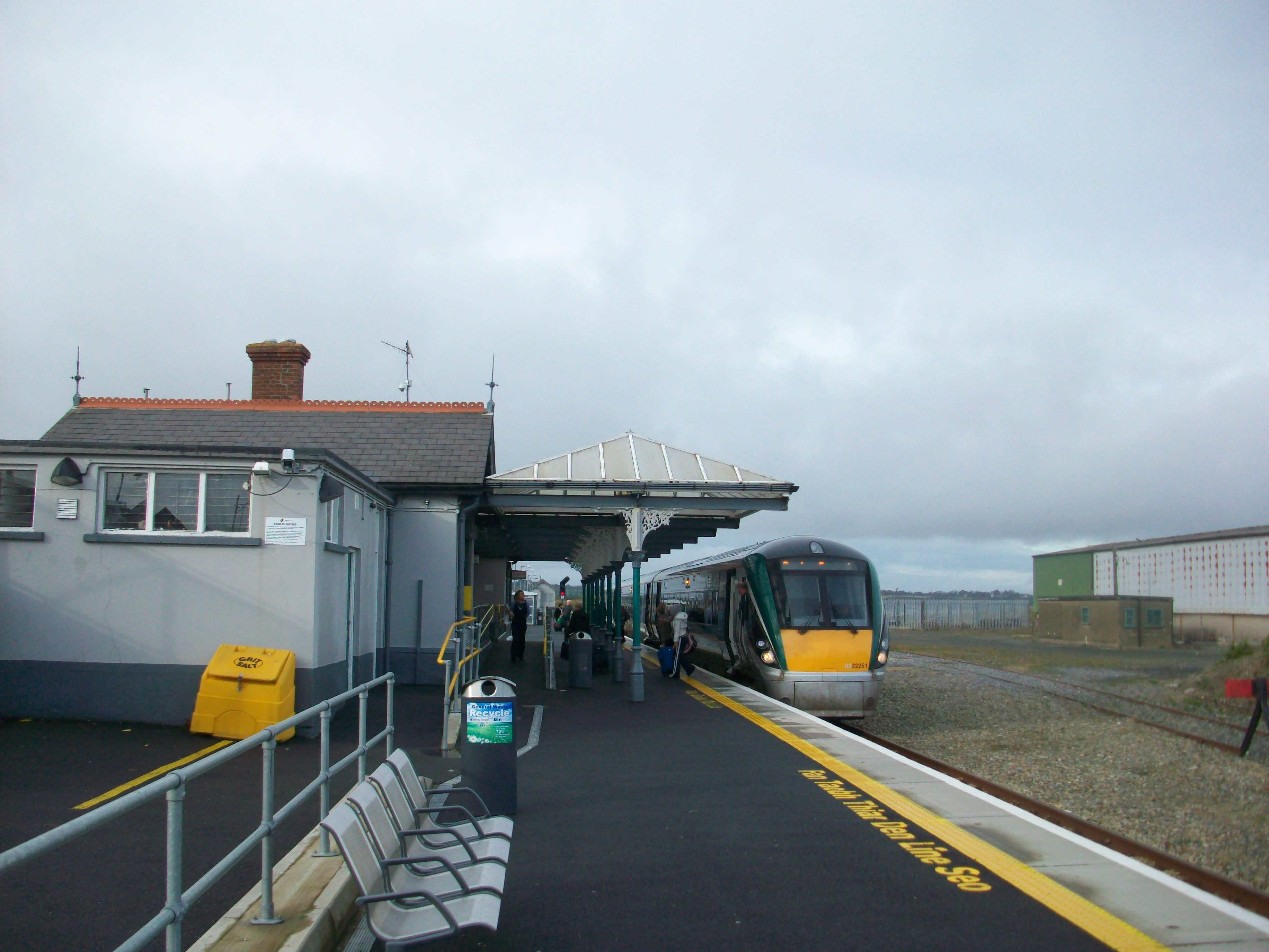 View northward on the Dublin–Rosslare railway line at Wexford railway station. Also pictured, an IE 22000 Class train (#22251), destination Rosslare Europort railway station.